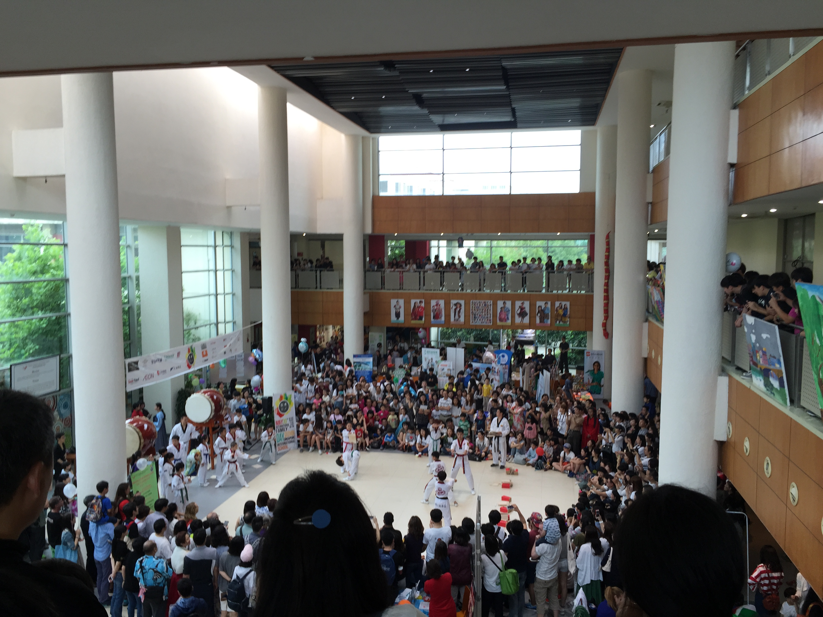 Suzhou Singapore International School IFD